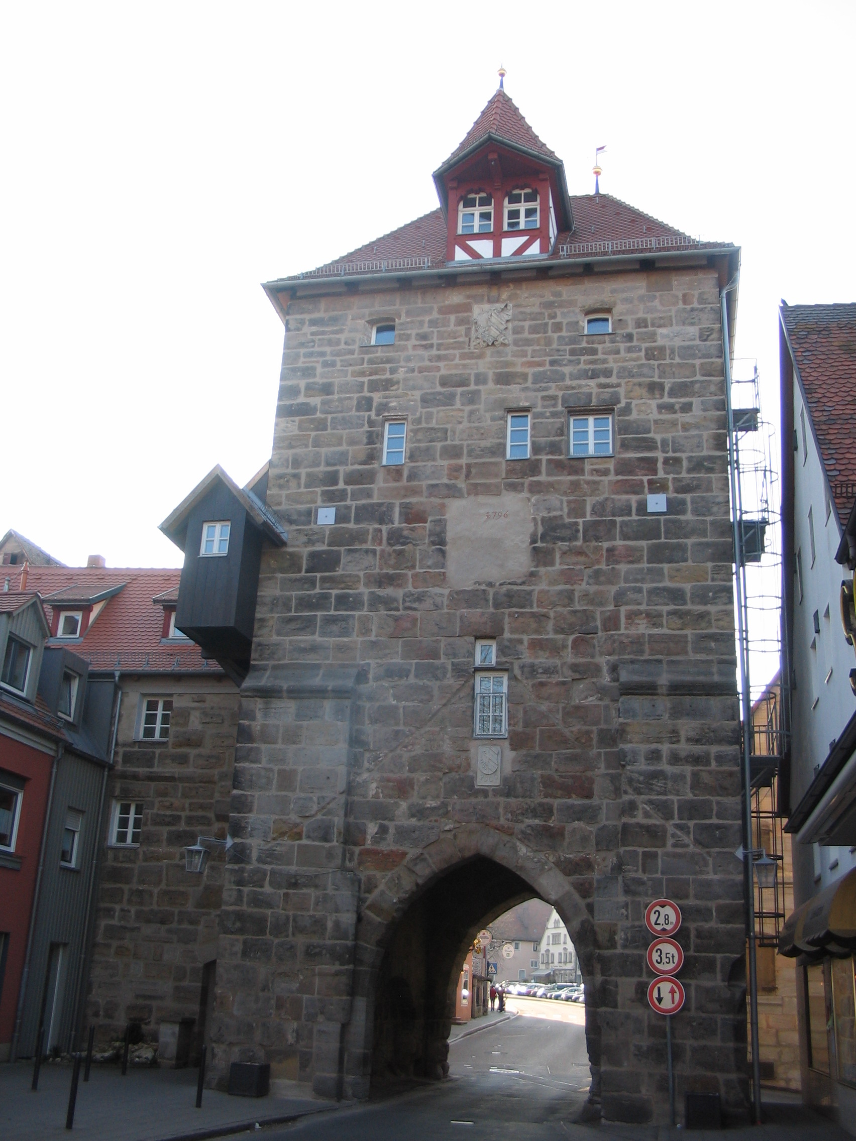 The lower gate in Altdorf bei Nürnberg, Germany. Seen from outside the town. Photo taken on April 3, 2005. Photo by User:Jarlhelm